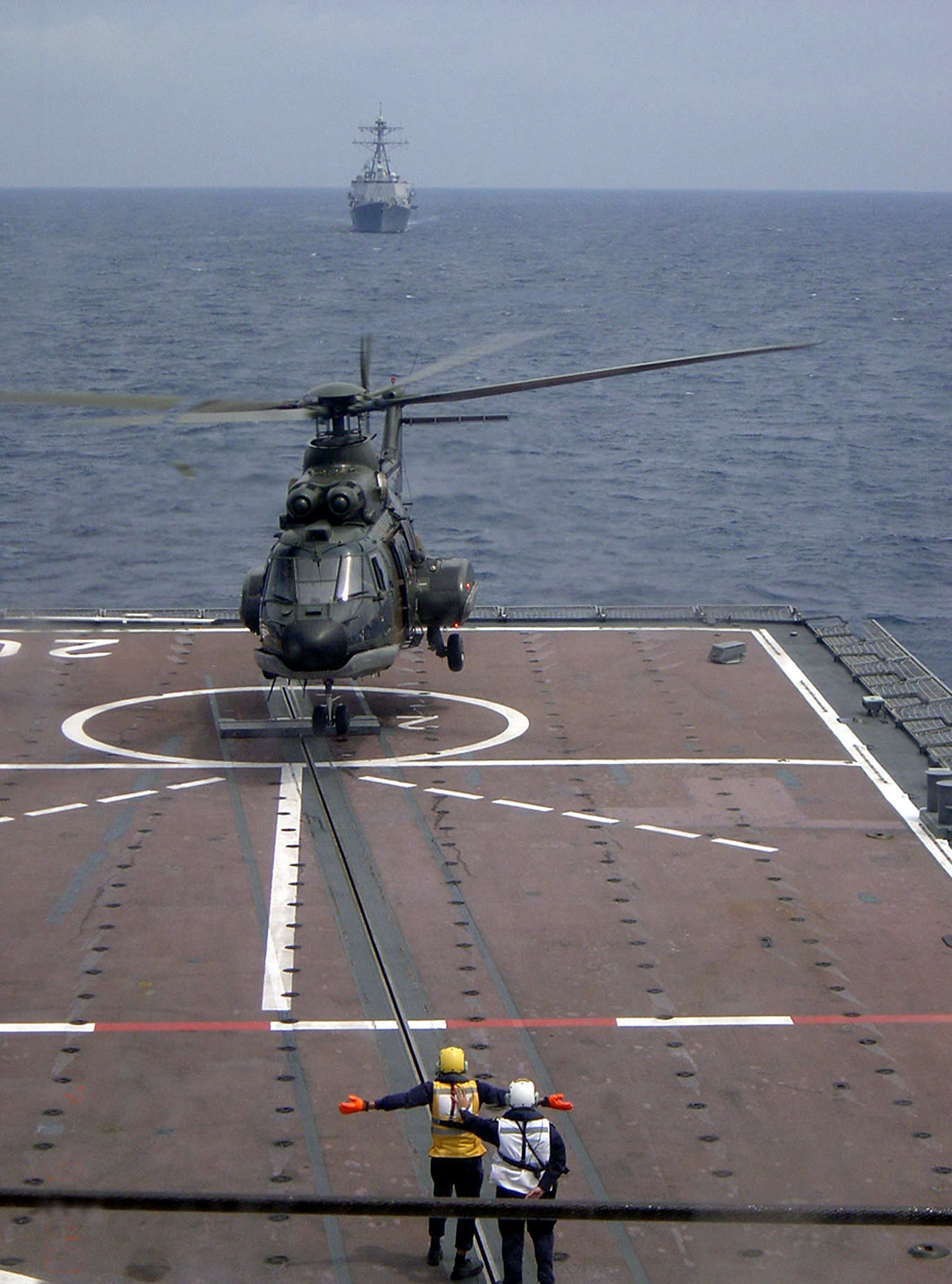 With the U.S. Navy guided missile destroyer USS Russell (DDG-59) on the horizon, a Republic of Singapore Air Force Eurocopter AS332 Super Puma helicopter takes off from the flight deck of the Republic of Singapore Ship (RSS) Resolution (LST 208).